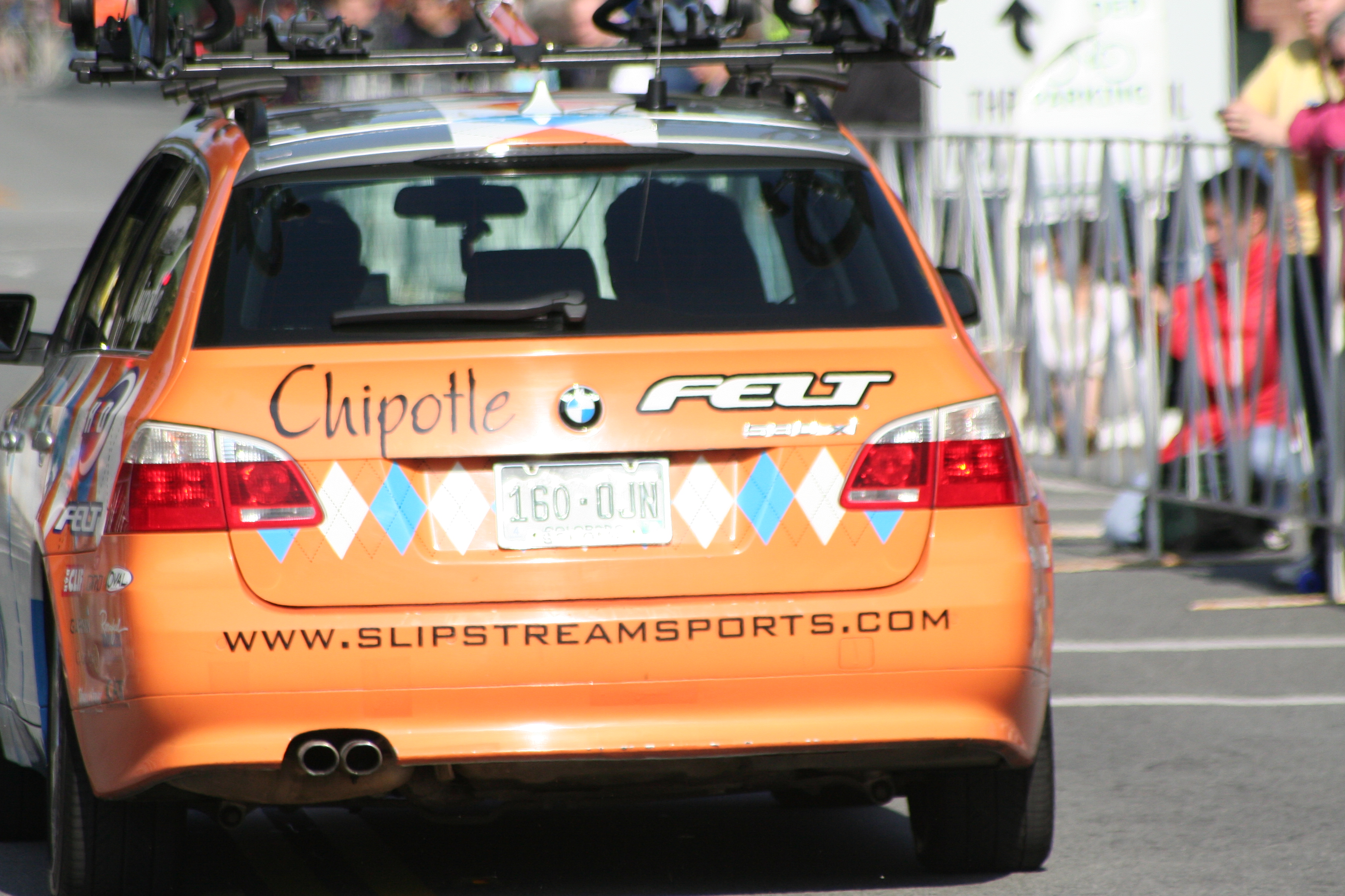 Team Slipstream Car